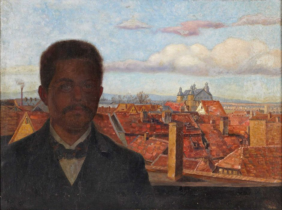 "Selbst vor Offenbach-Vedute" by Carl Geist